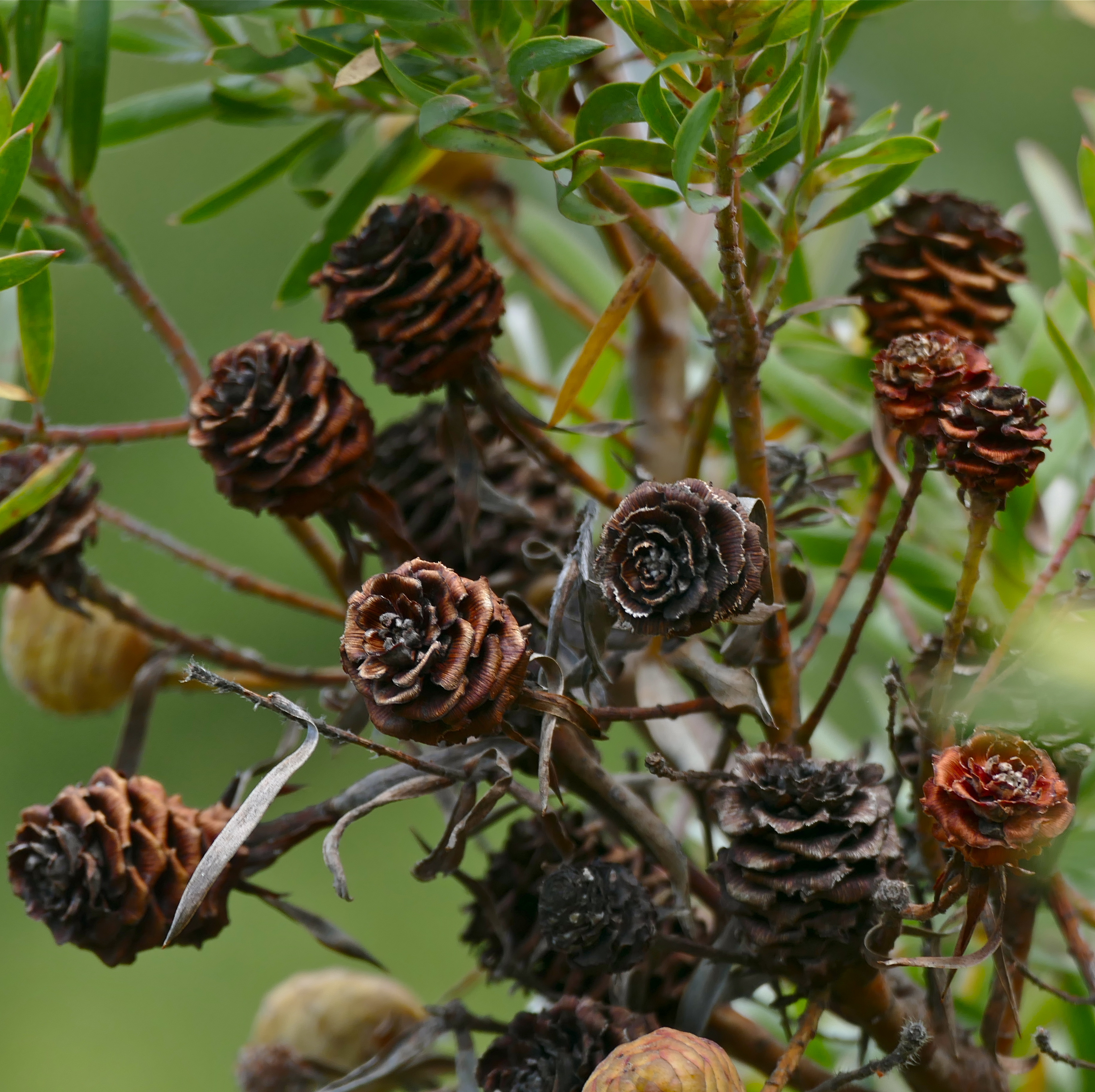 Kirstenbosch National Botanical Garden, Cape Town, Western Cape, SOUTH AFRICA